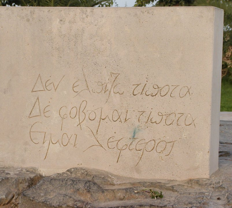 Picture of the epitaph on Nikos Kazantzakis' grave. Δεν ελπίζω τίποτα Δε φοβούμαι τίποτα Είμαι λέφτερος I don't hope for anything I don't fear anything I'm free